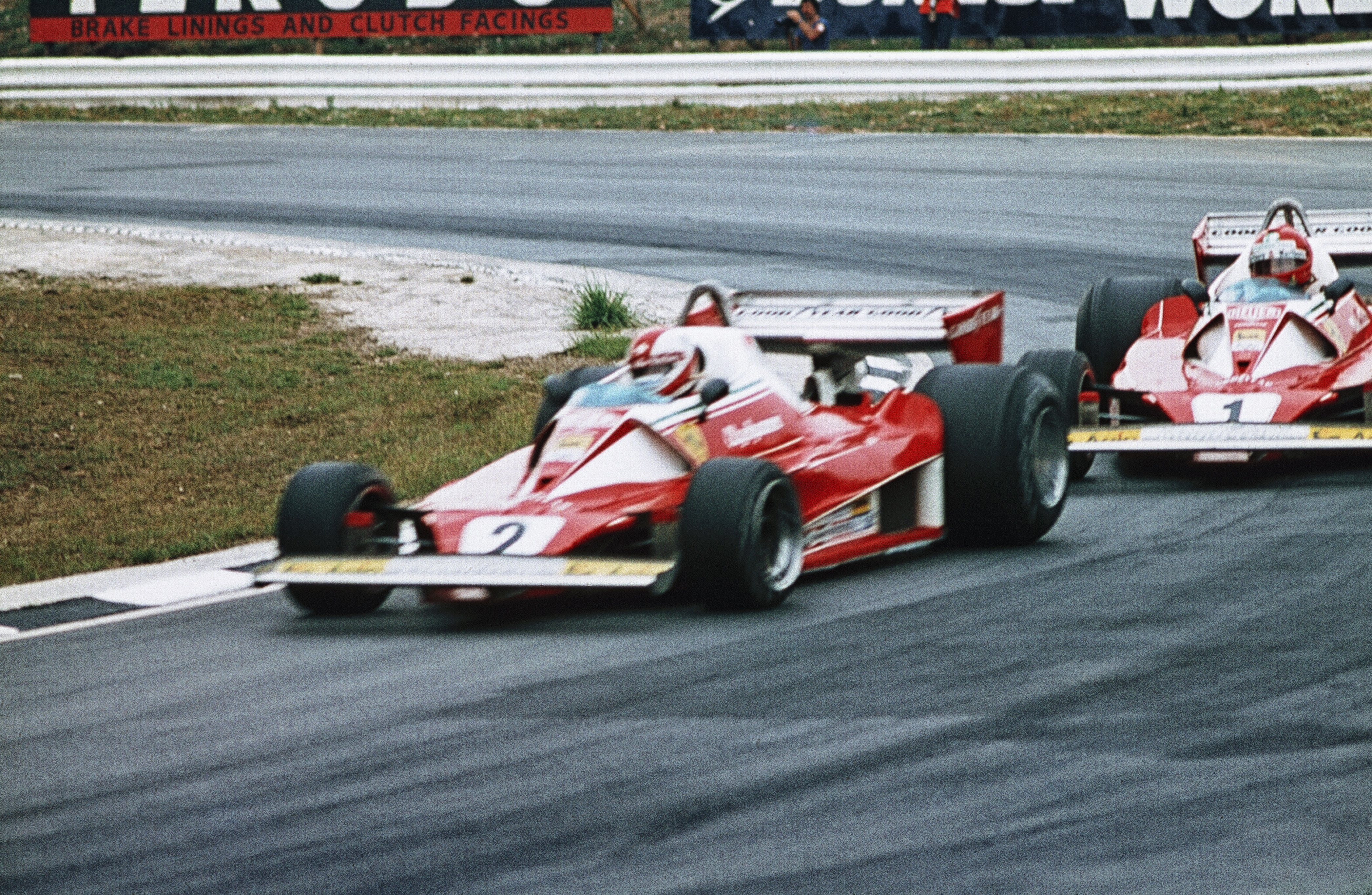 Clay and Niki at Race of Champions, Brands Hatch (1976)